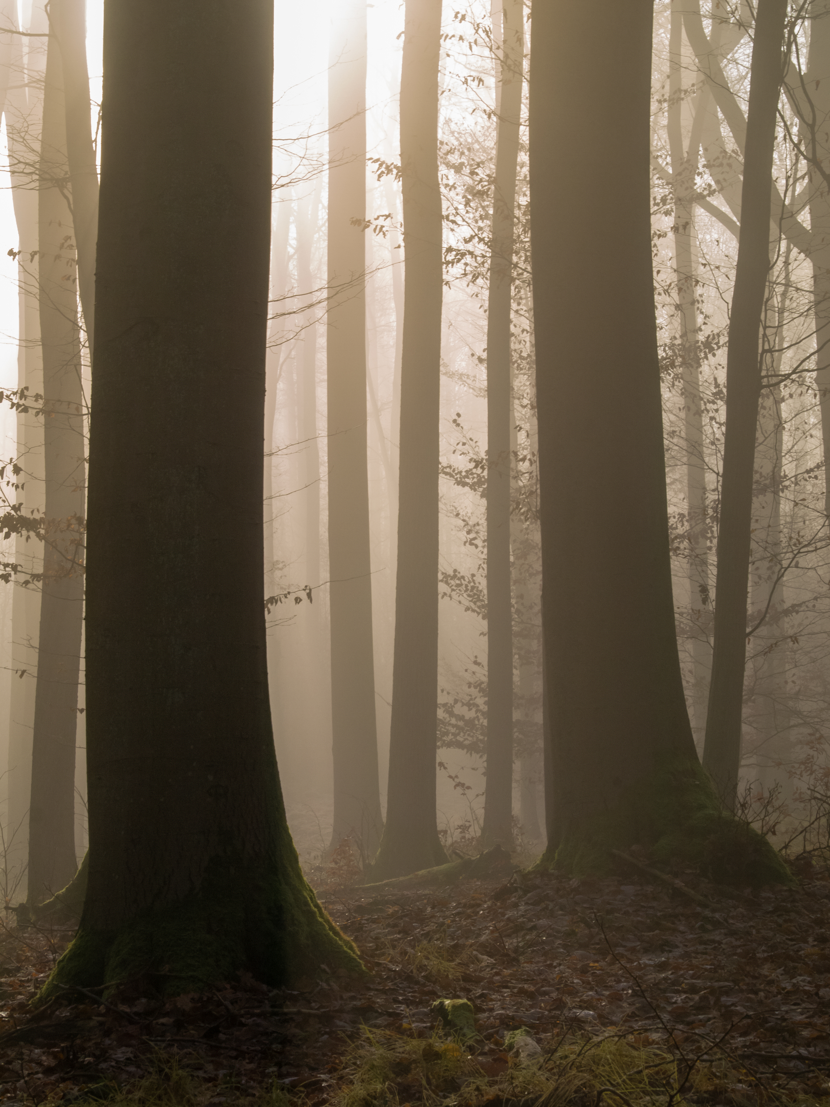 Fog in the Bruderwald